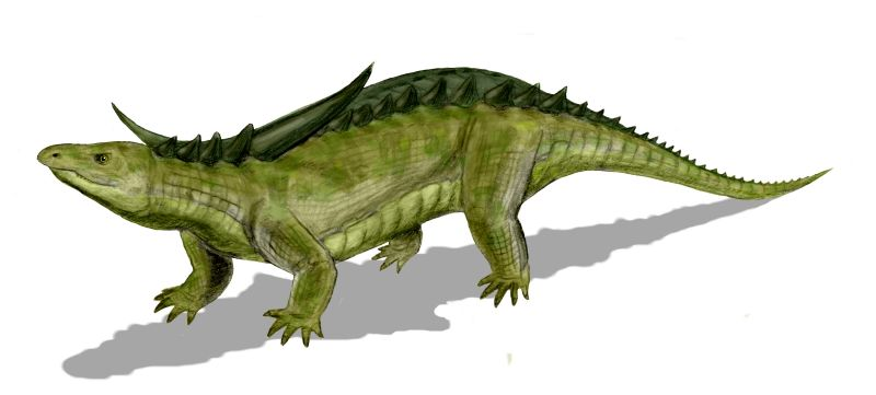 Desmatosuchus haploceros, an aetosaur from the Late Triassic of Texas, pencil drawing